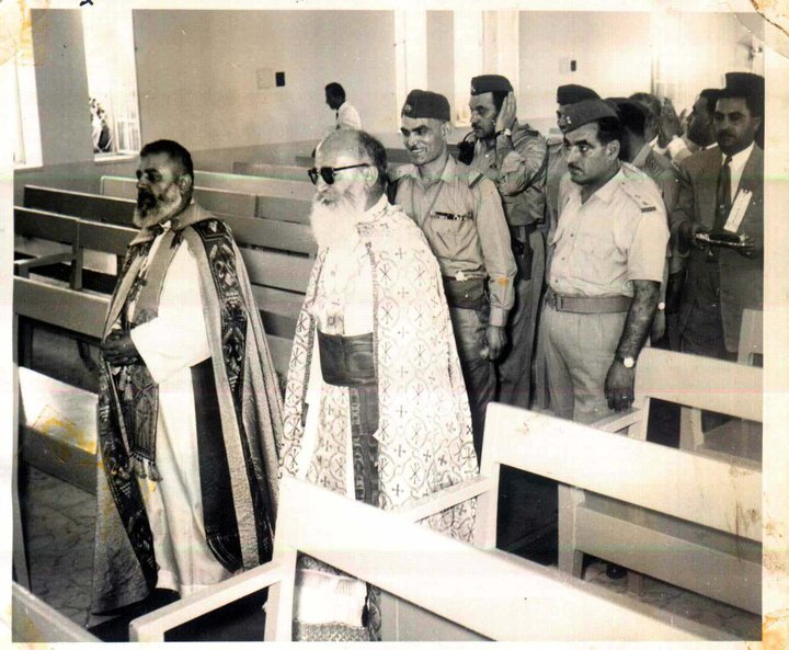 Iraqi leader Abdul Karim Qasim (third from left) with the metropolitan of Iraq Mar Yousip Khnanisho and bishop of Baghdad Mar Esho Sargis at the opening ceremonies for the Assyrian church of Mar Zayya in Baghdad.